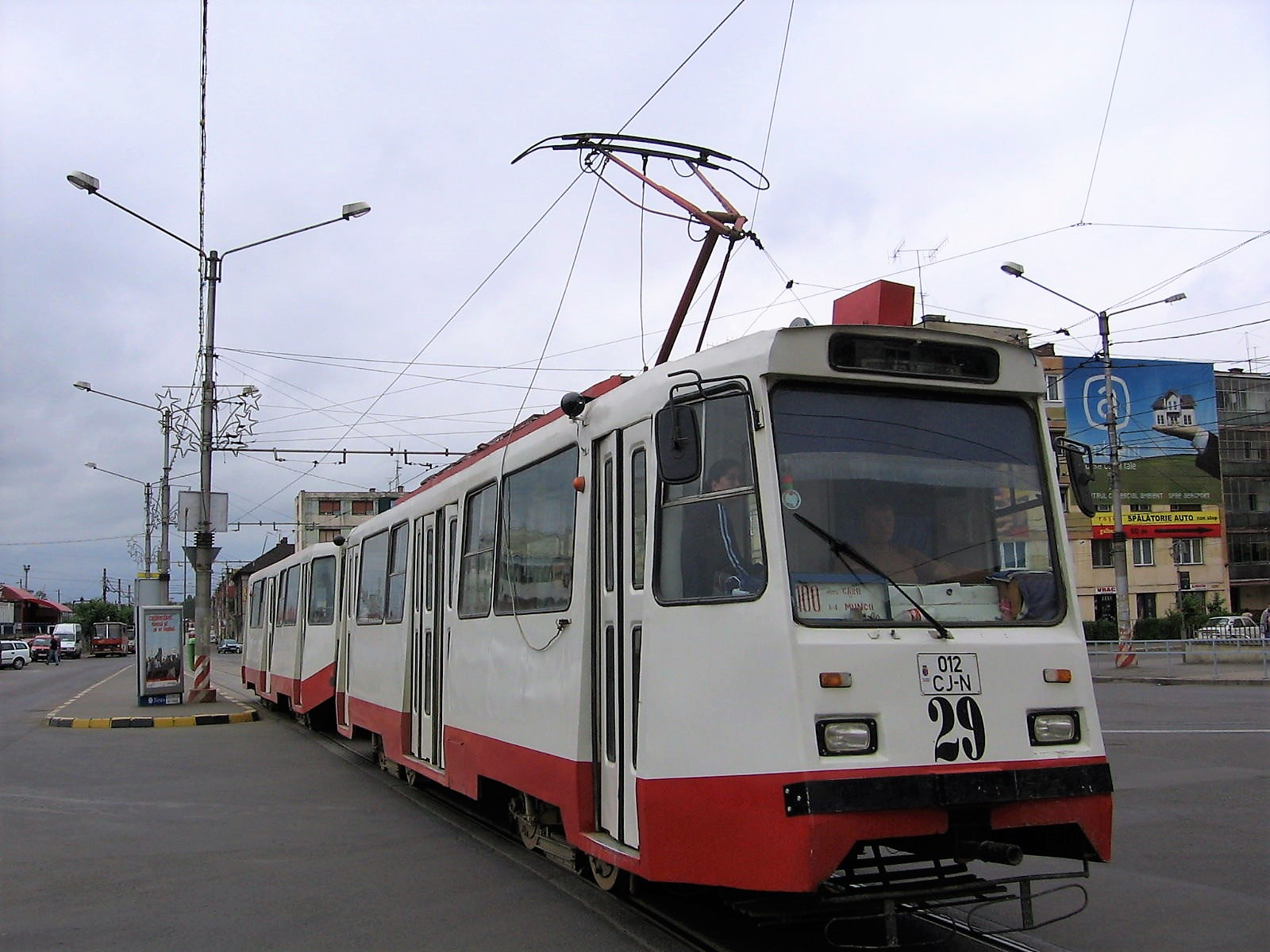 Timiș 2 29+029, tram line 100, Cluj-Napoca, 2006